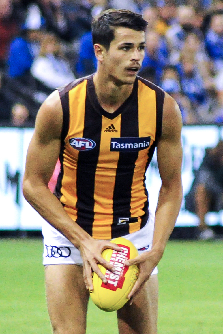 Ryan Burton during the AFL round five match between North Melbourne and Hawthorn on Sunday, 22 April 2018 at Etihad Stadium in Melbourne, Victoria.